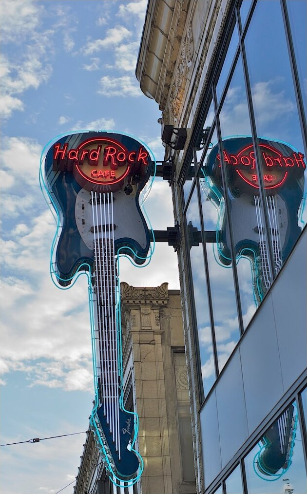 Been wondering when Seattle would get a permanent, tangible Kurt Cobain memorial other than the bench in Viretta Park? Wonder no longer. Here's the "giant Cobain-inspired Fender guitar" neon sign for the new Hard Rock Cafe that opened earlier in the year on Pike Street. Also the Seattle Art Museum is joining in the revival with the exhibit "Kurt" which celebrates the short life and incendiary musical career of Cobain, who committed suicide 16 years ago at age 27. Leica M9 & 35mm Summicron